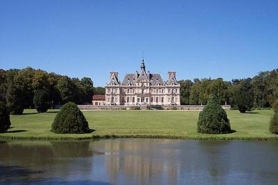 Chateau de Baronville in France, near Paris Image free of rights